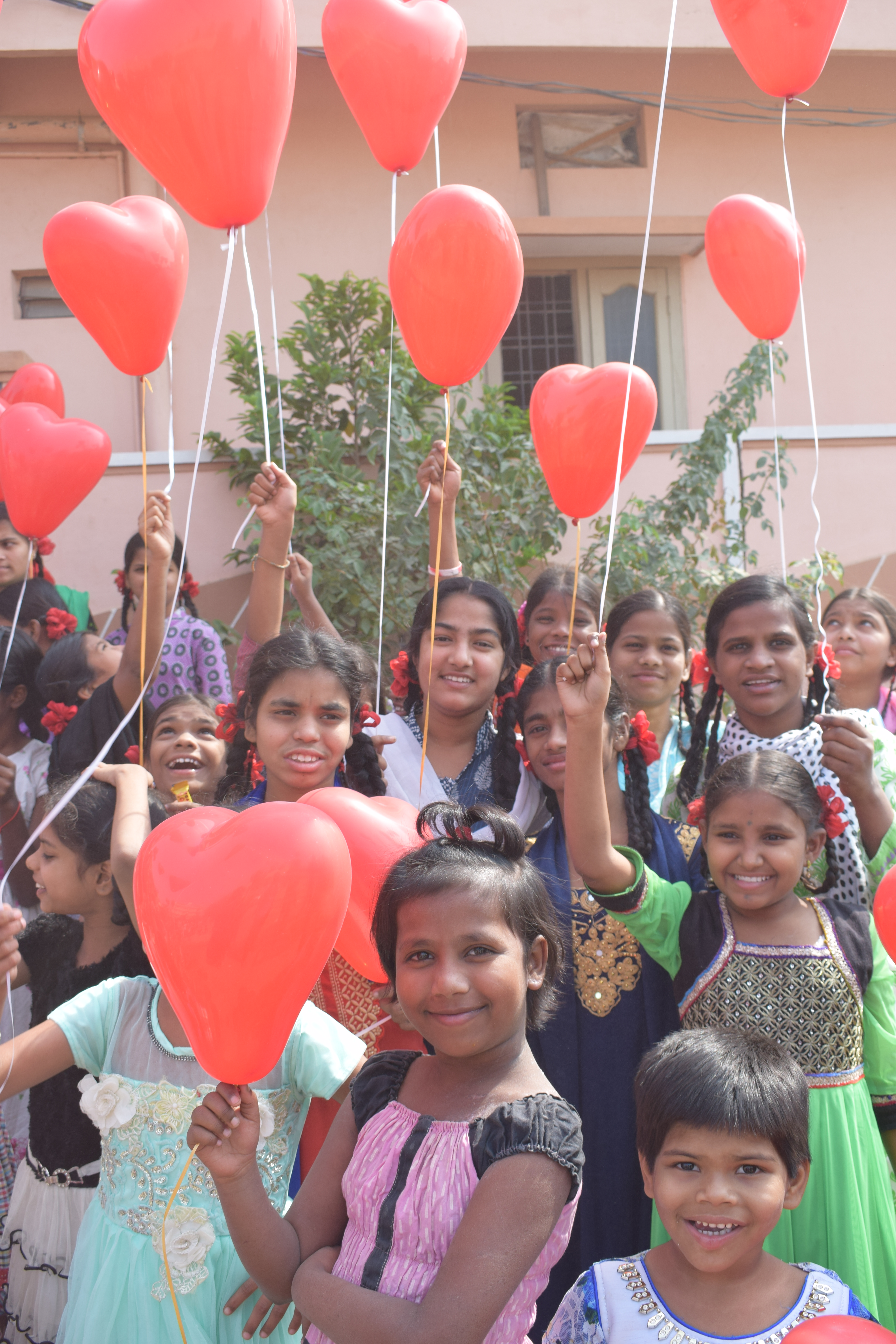 AGAPE Means Love! AGAPE's 200 HIV/AIDS orphans celebrated World AIDS day. Each orphan also living with HIV themselves released a ballon in memory of their deceased parents and for all the other AIDS orphans in their same situation. There was great joy in the moments. This photo has been taken in the country: India